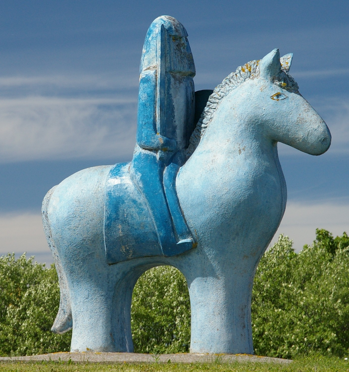 Ållebergs ryttare (Swedish: Knights of Ålleberg), sculpture by Åsa Gustavsson, placed in a roundabout in Falköping, Sweden.